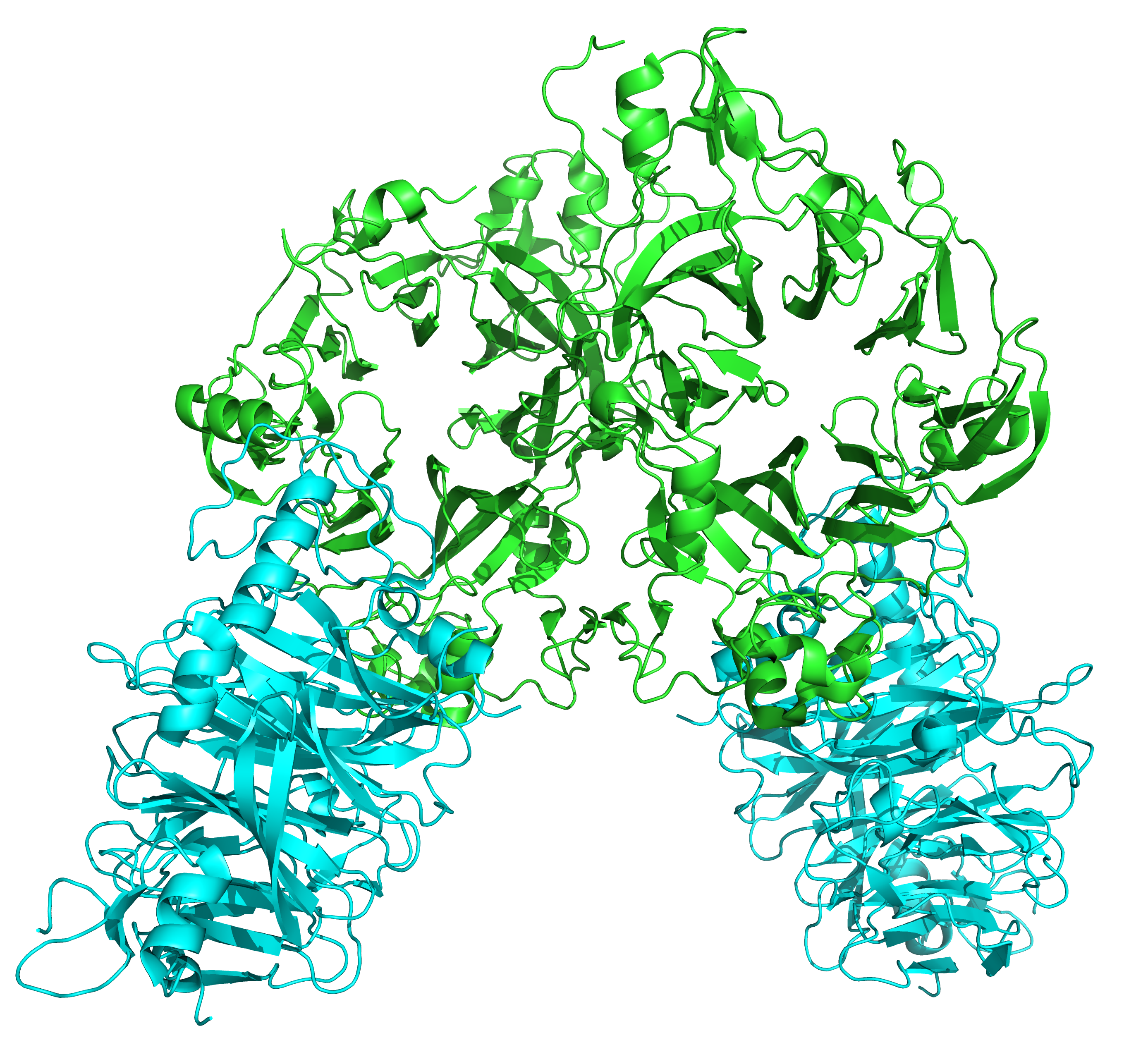 Plexin A2 / Semaphorin 6A complex. They are making 2:2 heterotetramer. Green: Semaohrin 6A (fragment), Cyan: Plexin A2 (fragment). This file was created from PDB id= 3AL8